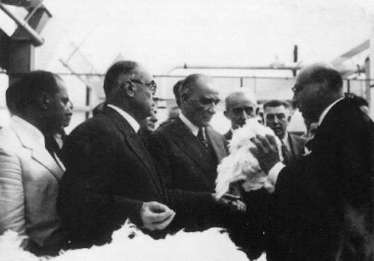 Celâl Bayar, Mustafa Kemal Atatürk, İsmet İnönü, and Fazlı Turga (general director of the factory) during an official visit to the Nazilli Cotton Factory (Nazilli Sümerbank Basma Fabrikası) on October 9, 1937.